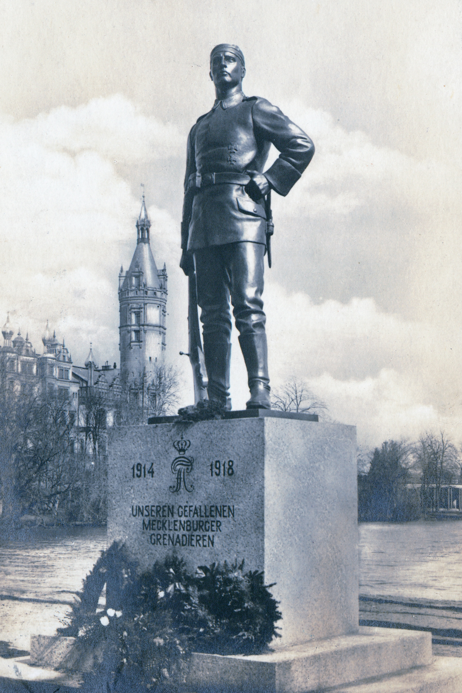 World War I memorial of the Grenadier Regiment No. 89 in Schwerin, sculpted by Wilhelm Wandschneider, unveiled in 1923, destroyed in 1948